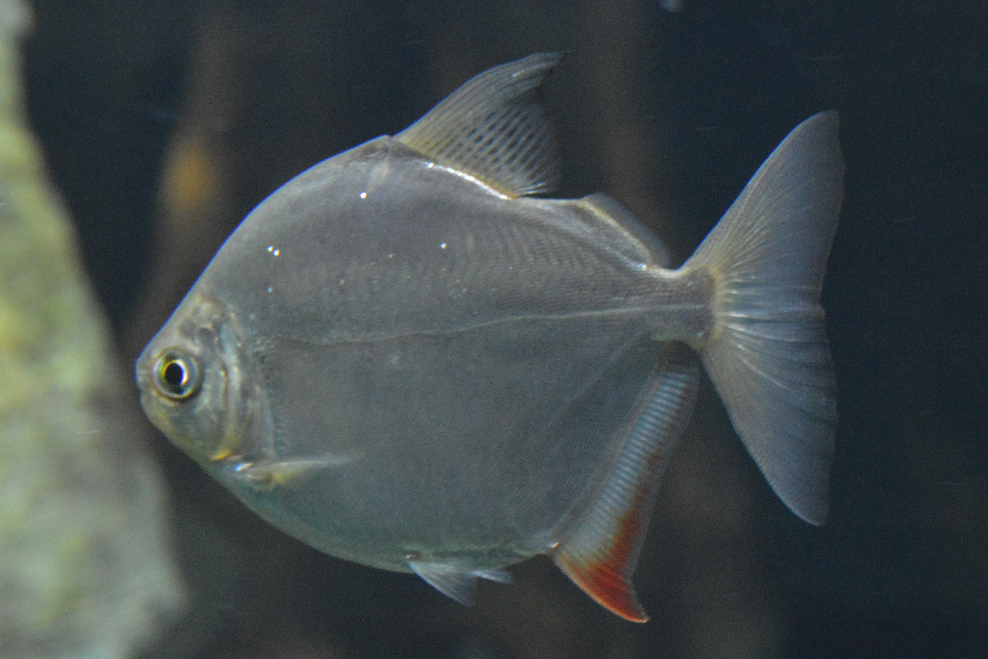 left facing Metynnis hypsauchen (silver dollar) at Tennessee Aquarium in Chattanooga TN